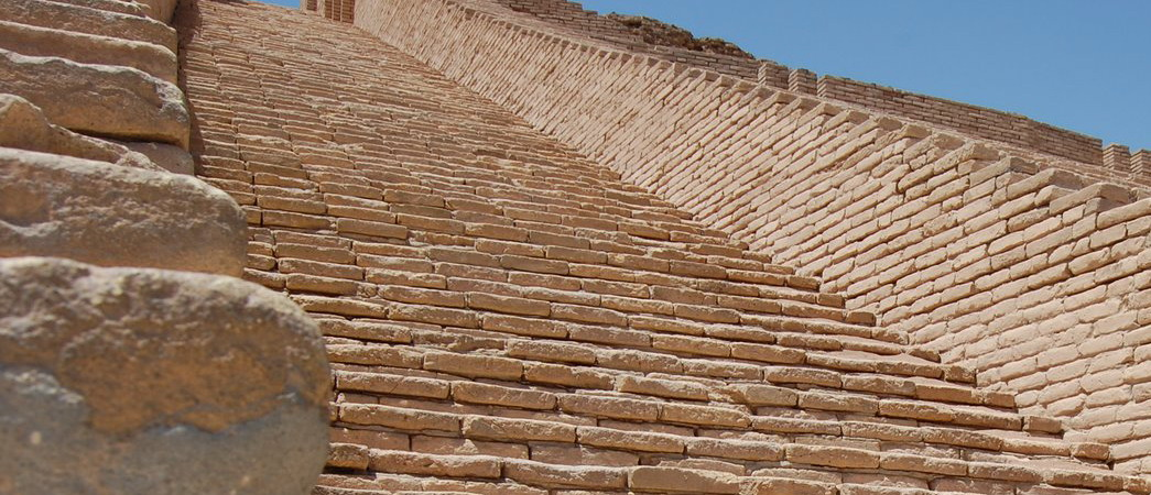 At the Ziggurat of Ur